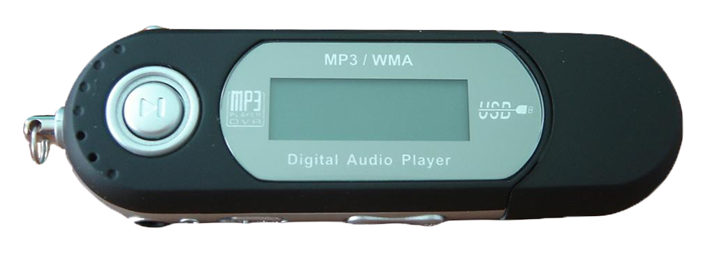 rubbish mp3